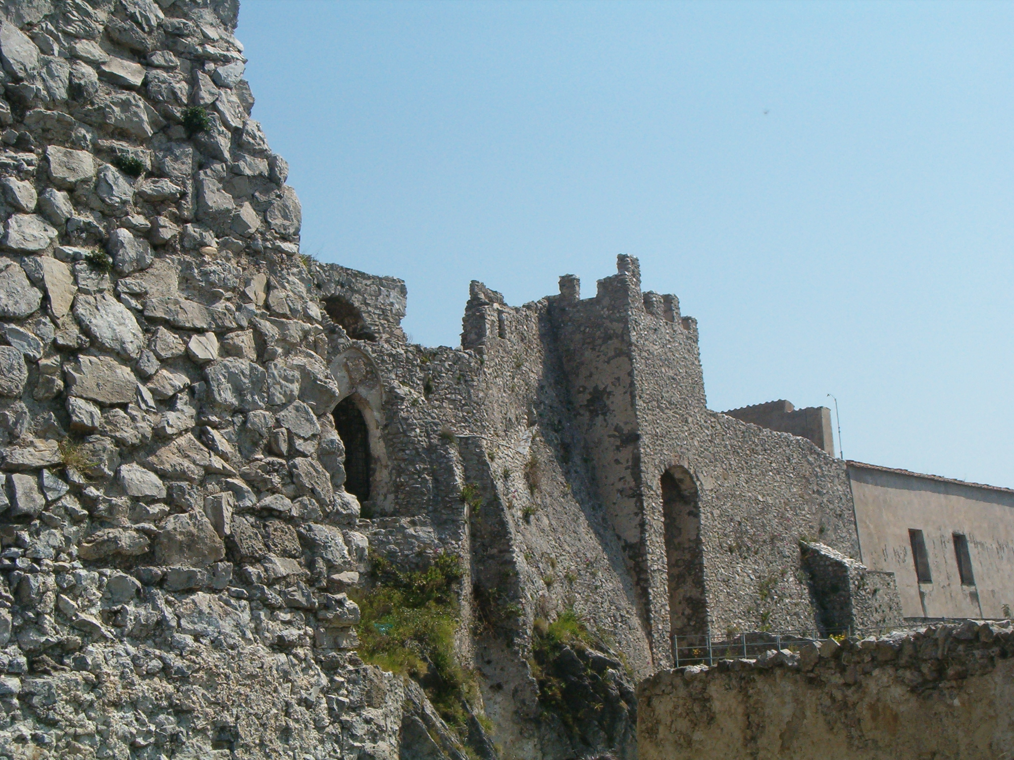 Salerno's casstle